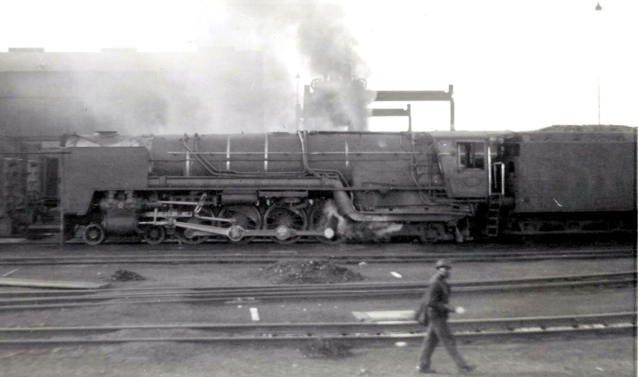 SAR Class 25 3537 (4-8-4) Builder's Number: NBL 27397 Type: Condensing Location: Beaufort West, Cape Province